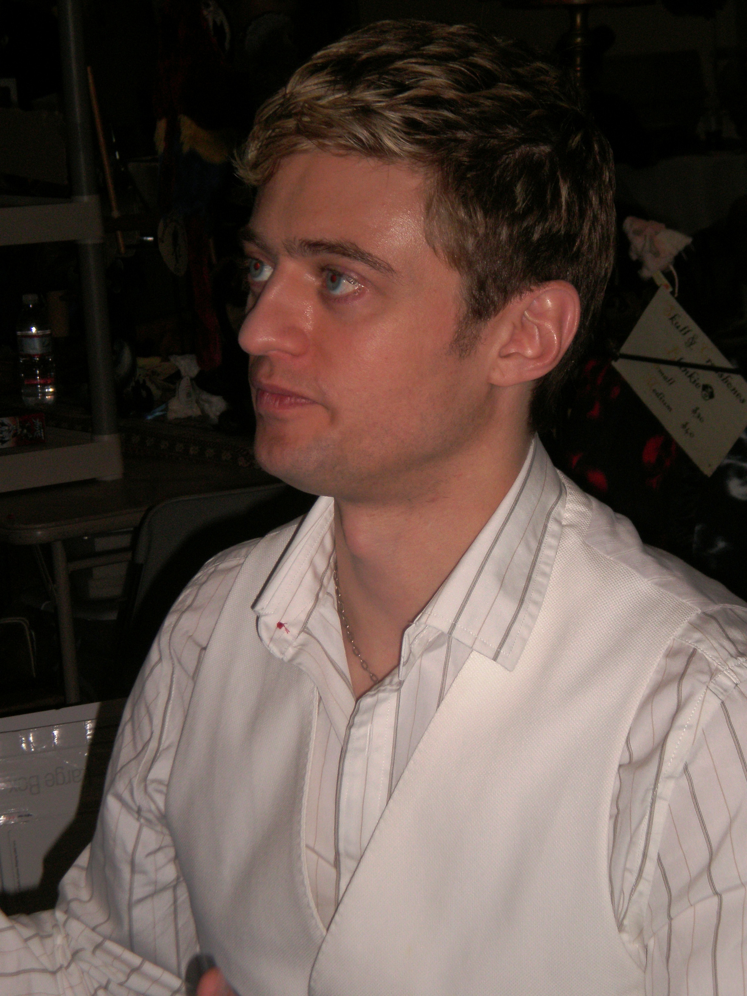 Crispin Freeman at Super-Con 2009 in San Jose, California.